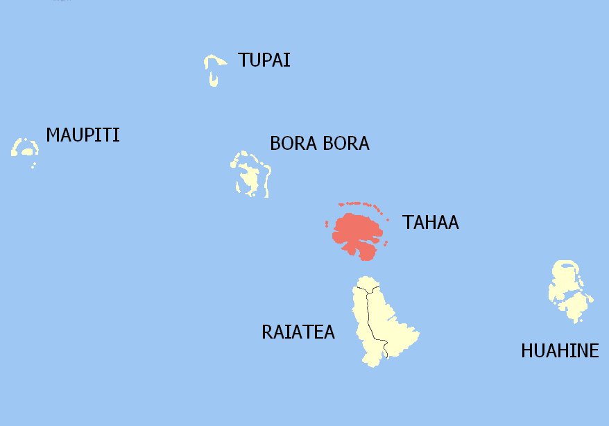 Location of the community of Tahaa, Society Islands